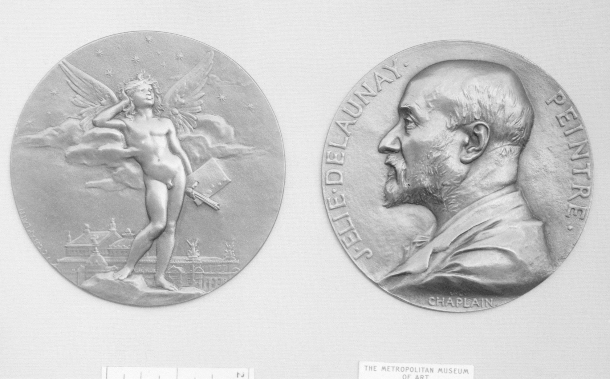 French; Medallion; Medals and Plaquettes